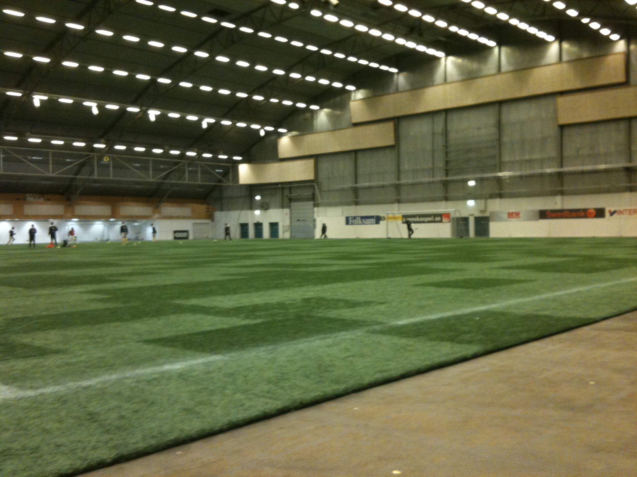 The football hall Elmiahallen in Jönköping, Sweden.